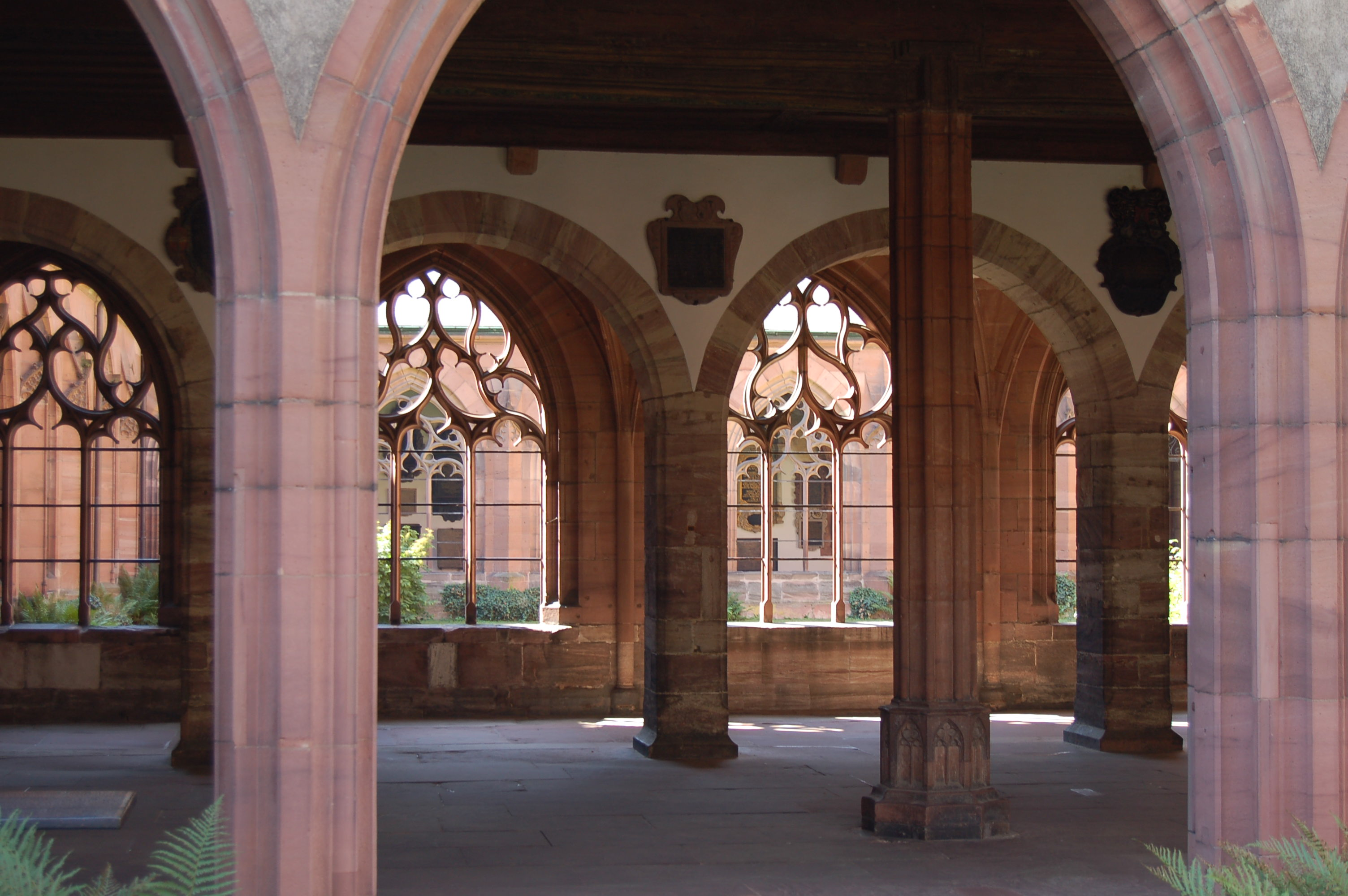 Basle, Switzerland